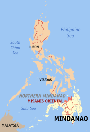 Map of the Philippines showing the location of Misamis Oriental